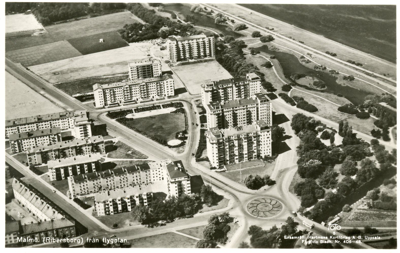 Aerial view Ribersborg